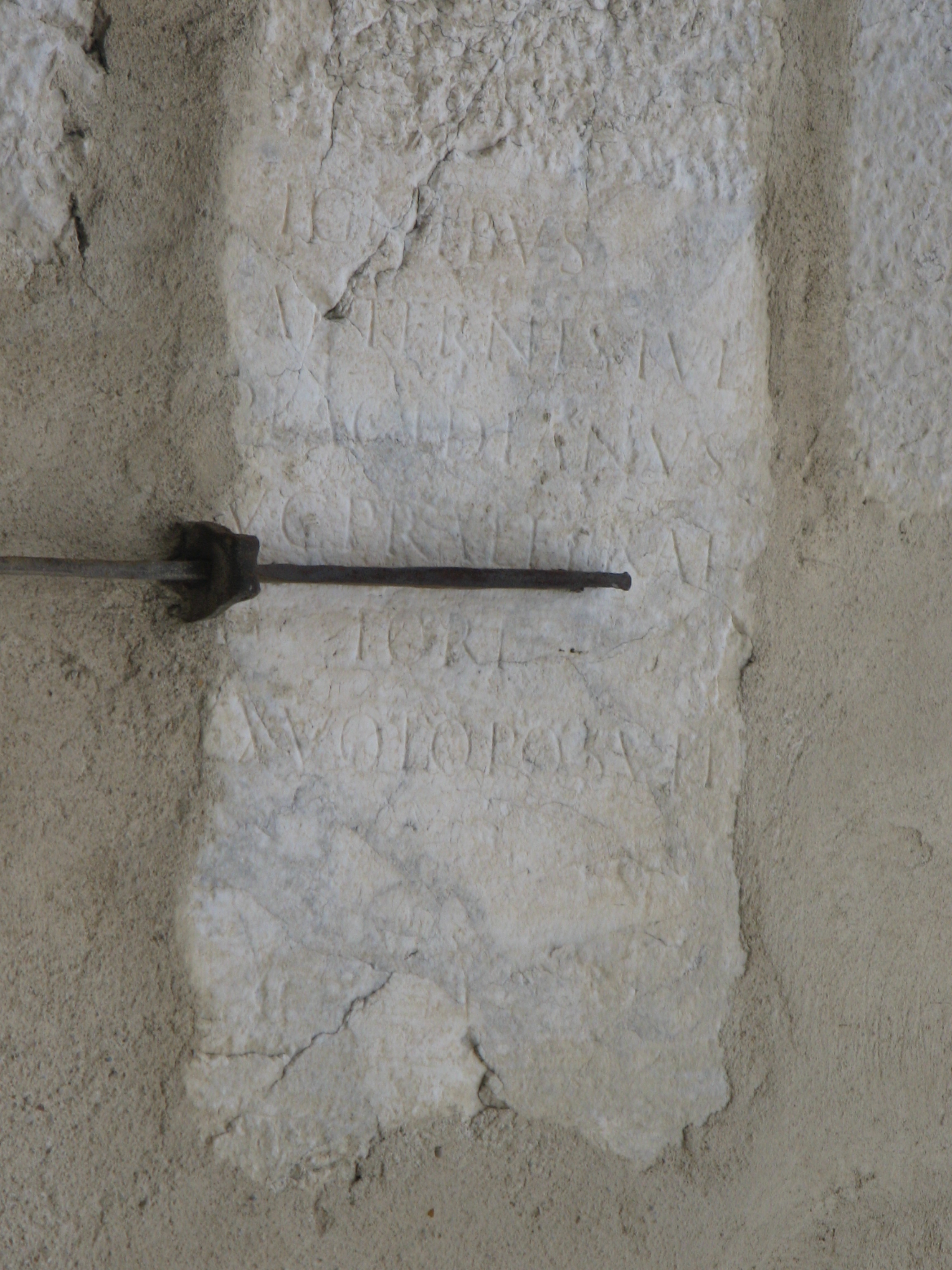 Ancient Roman inscription reemployed in the church of Vif (Isère).